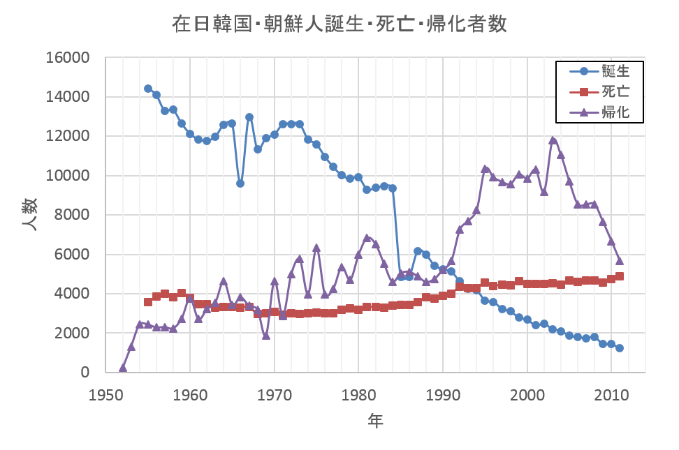 Numbers of birth, death, and naturalization of Koreans in Japan